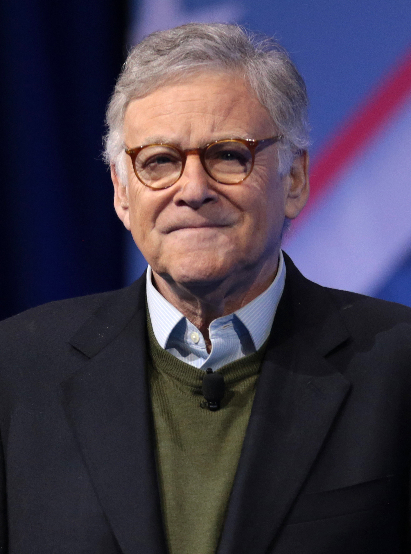 Rick Ungar speaking at the 2017 CPAC in National Harbor, Maryland.